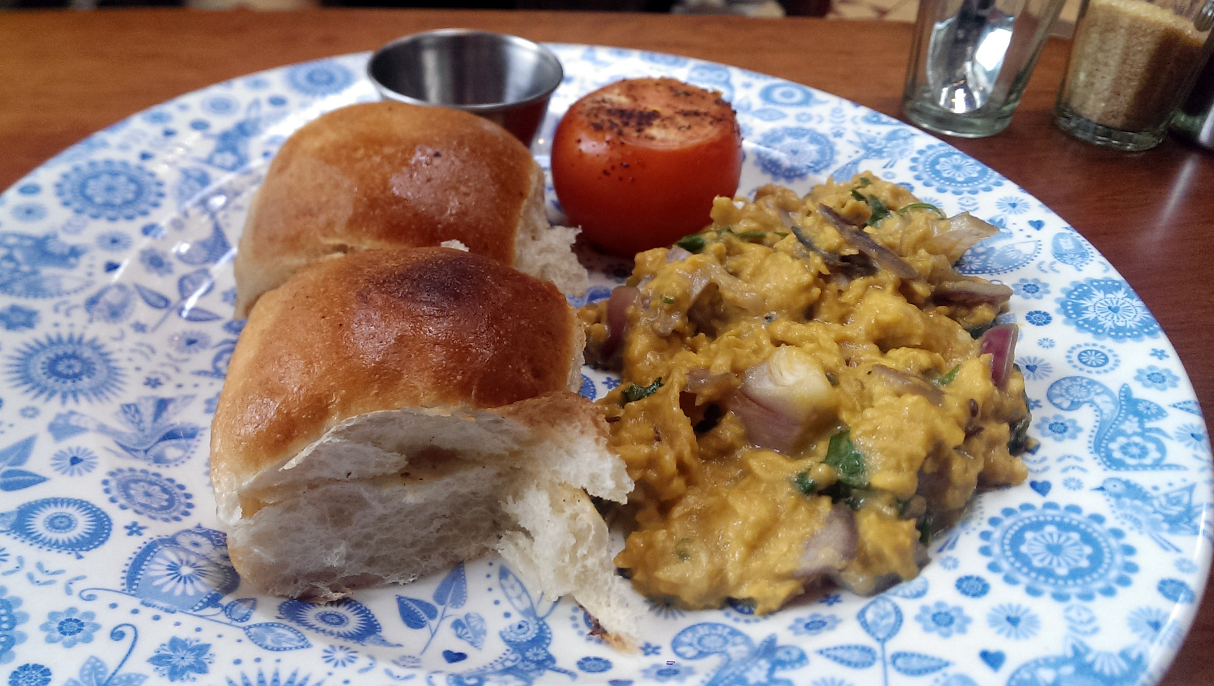 A breakfast dish called "akuri", served with some soft buns, and absolutely lovely. At Dishoom, Stable Street.